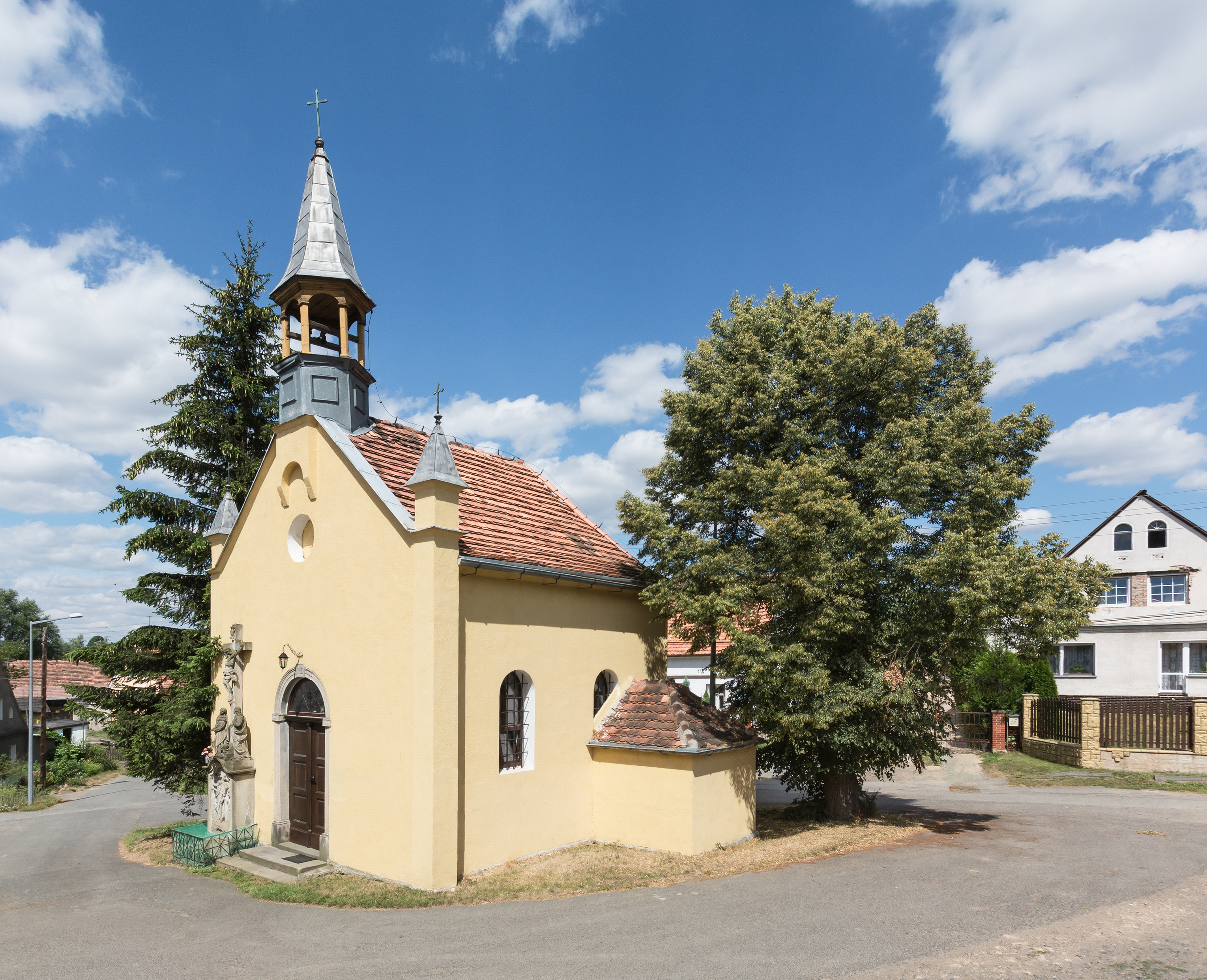 Maternity of the Blessed Virgin Mary Church in Kłodzko